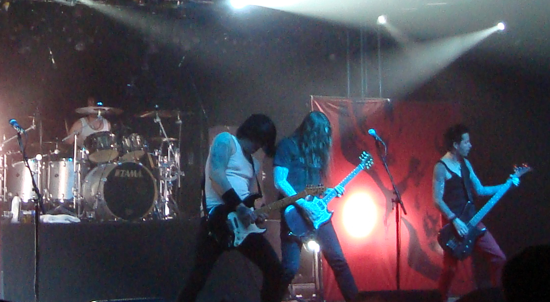 Dia Psalma at Rockweekend on Tour, Gärdeshov, Sundsvall, Sweden